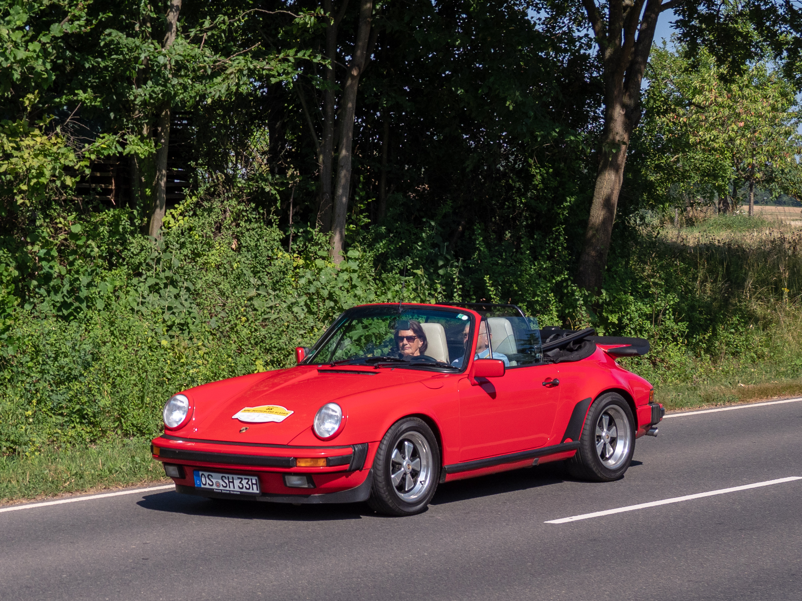 Porsche 911 Carrera 3.2 Cabriolet at the ADAC Deutschland Klassik 2018